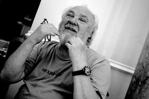 Peter Sinfield in Genoa June 2010.